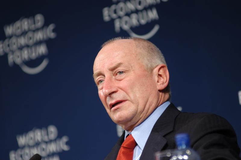 CAPETOWN/SOUTHAFRICA, 2JUN05 - Graham Mackay, Chief Executive, SABMiller, United Kingdom captured during the World Economic Forum on Africa 2005 Copyright by World Economic Forum